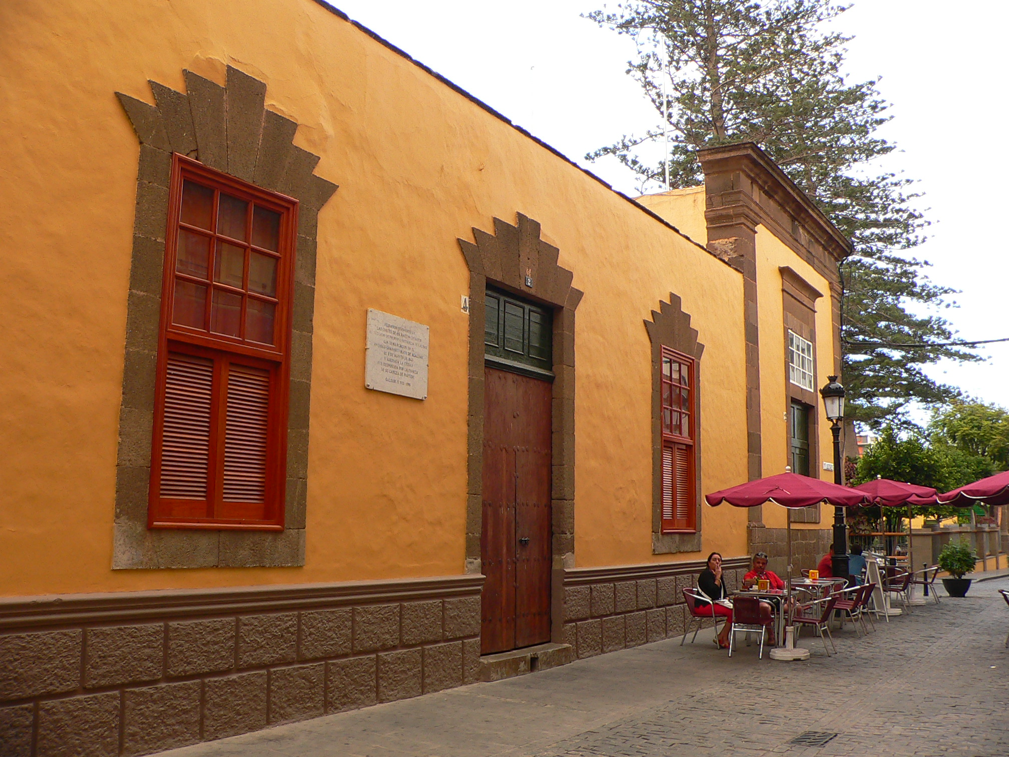 Street in the town of Galdar